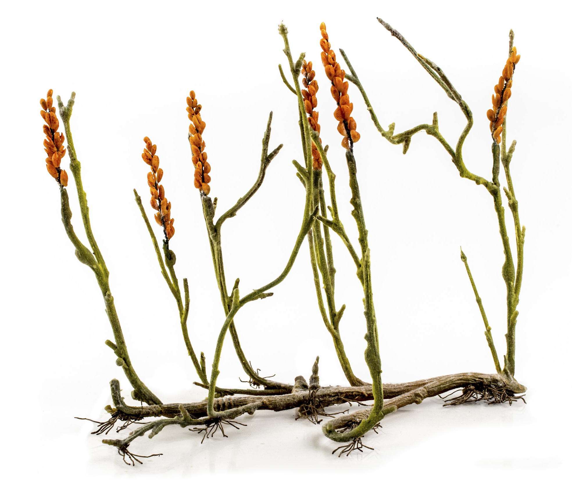 Reconstruction of a species of Zosterophyllum, scale 3:1; from the upper Silurian, ca. 420 Mya.